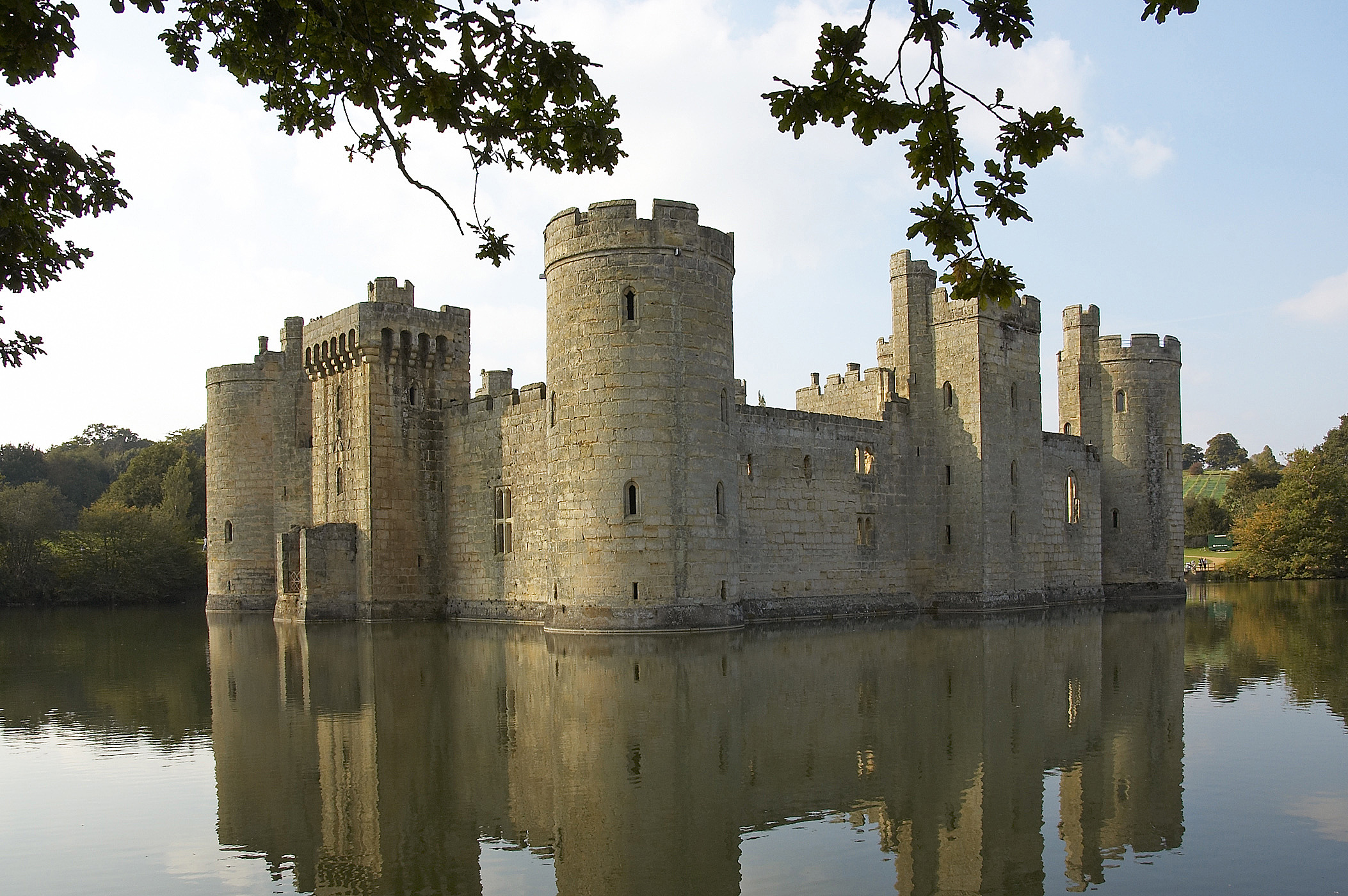 Bodiam Castle in Sussex UK